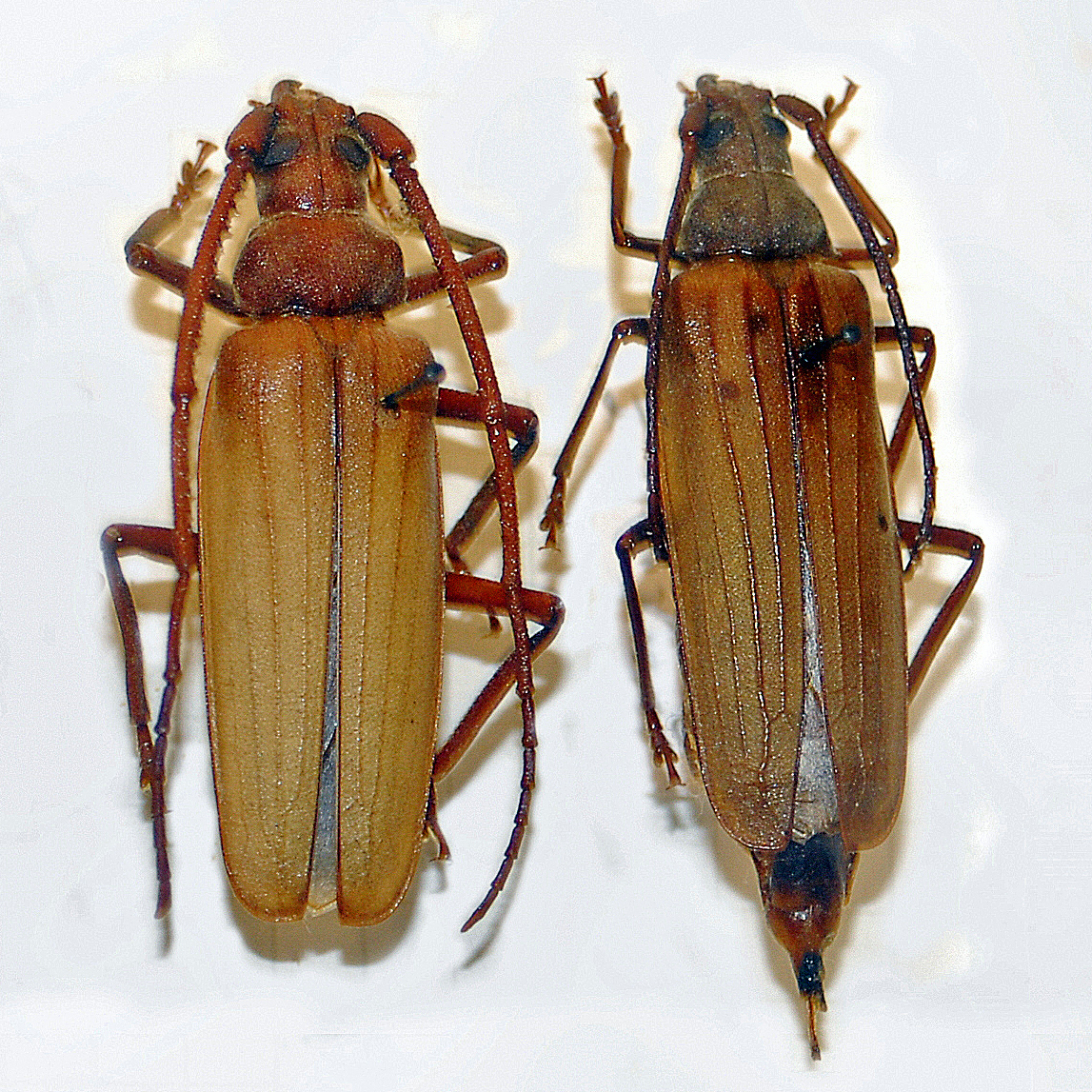 Aegosoma scabricorne, male amd female, on display at the Museo Archeologico e di Scienze Naturali F. Eusebio, Alba, Italy